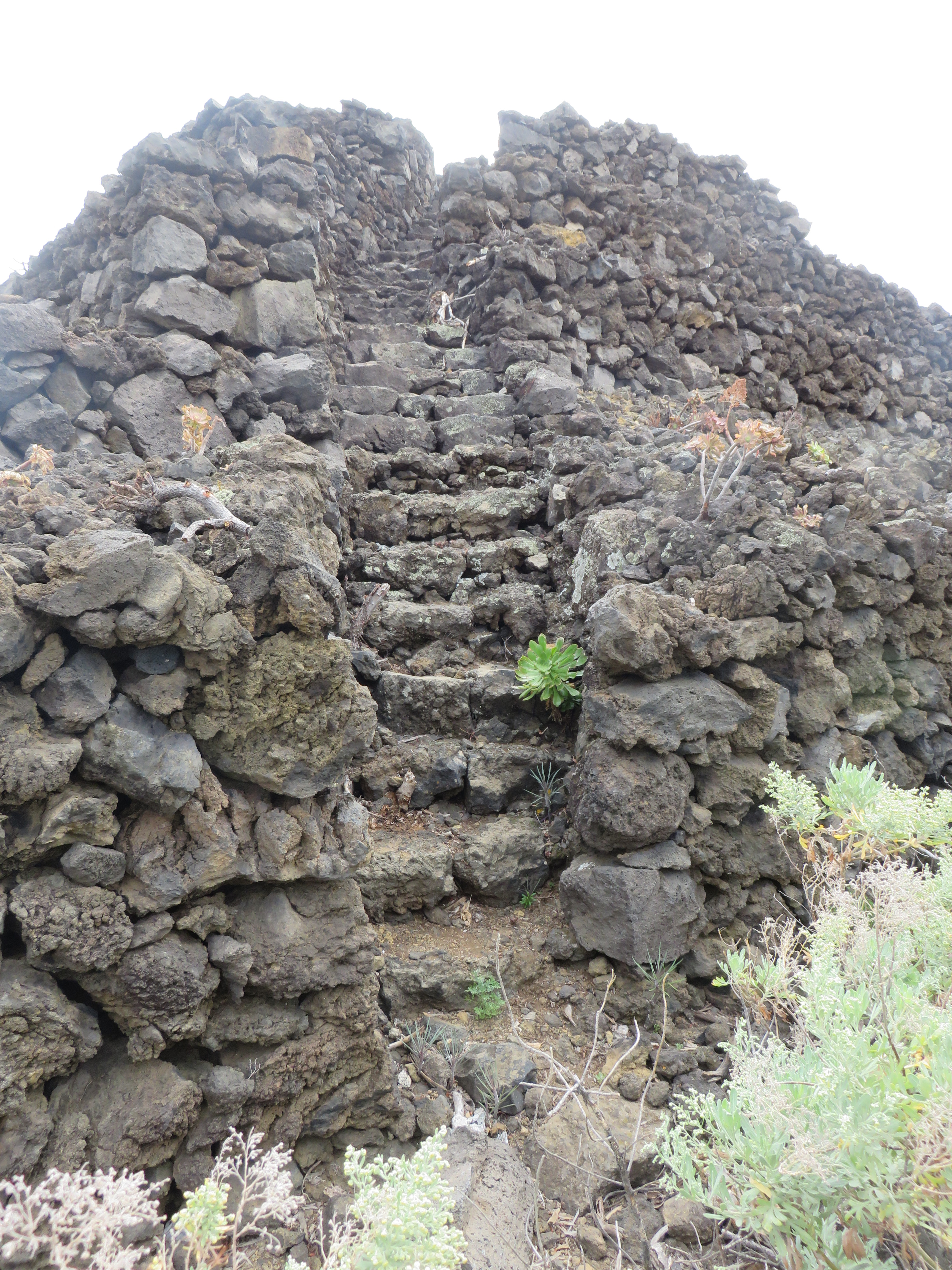 Pyramid in Los Cancajos, La Palma